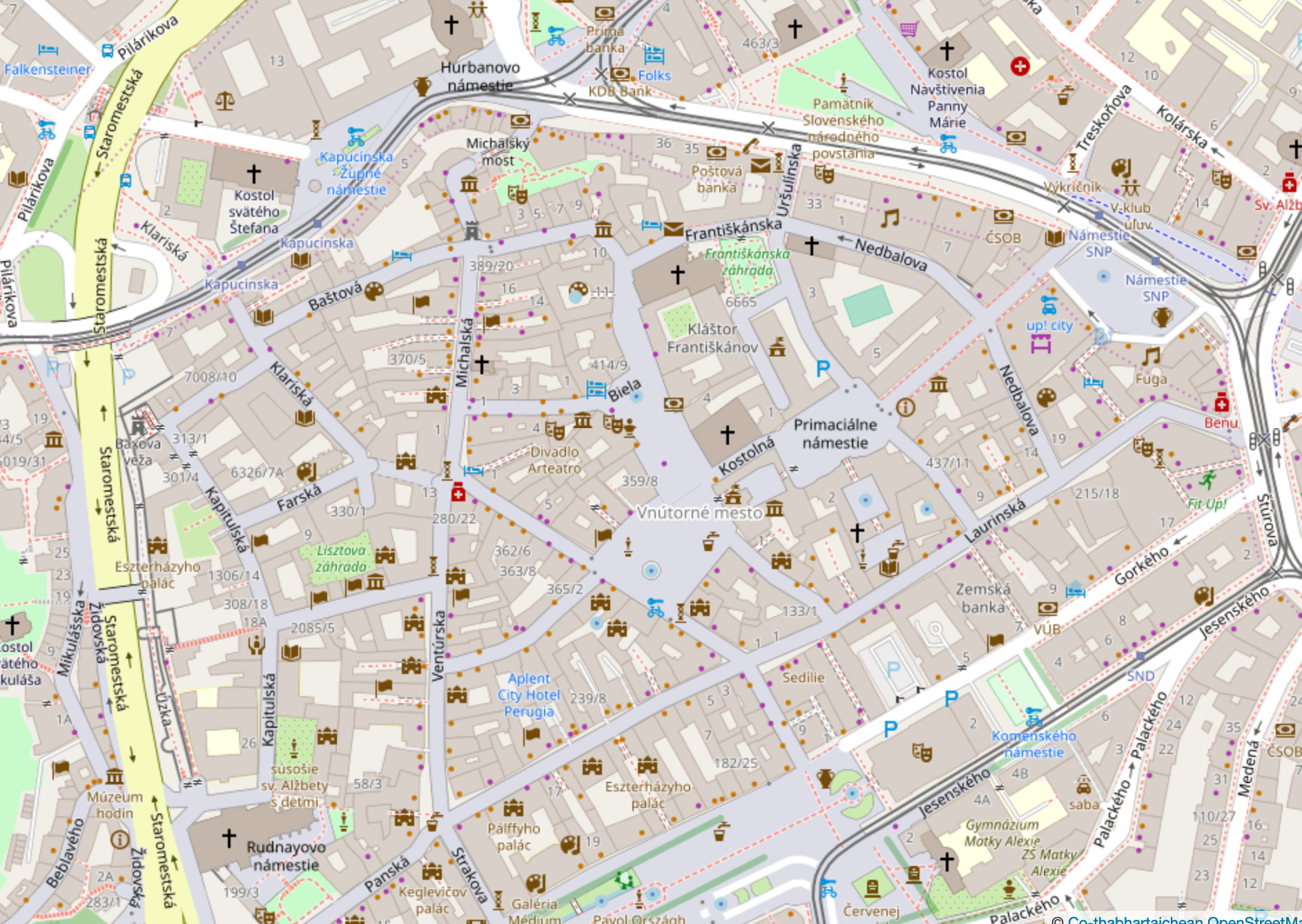 This map may be incomplete, and may contain errors. Don't rely solely on it for navigation.